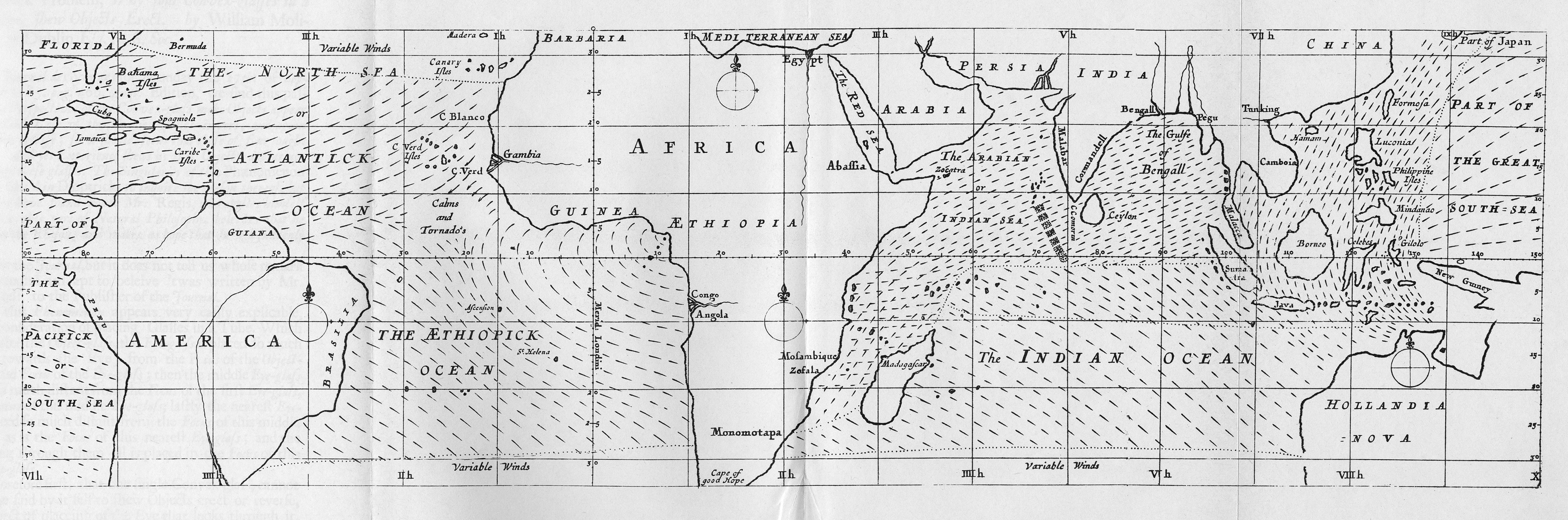 Edmond Halley's map of the trade winds, from (1686). "An Historical Account of the Trade Winds, and Monsoons, Observable in the Seas between and near the Tropicks, with an Attempt to Assign the Phisical Cause of the Said Wind". Philosophical Transactions of the Royal Society 16: 153-168.